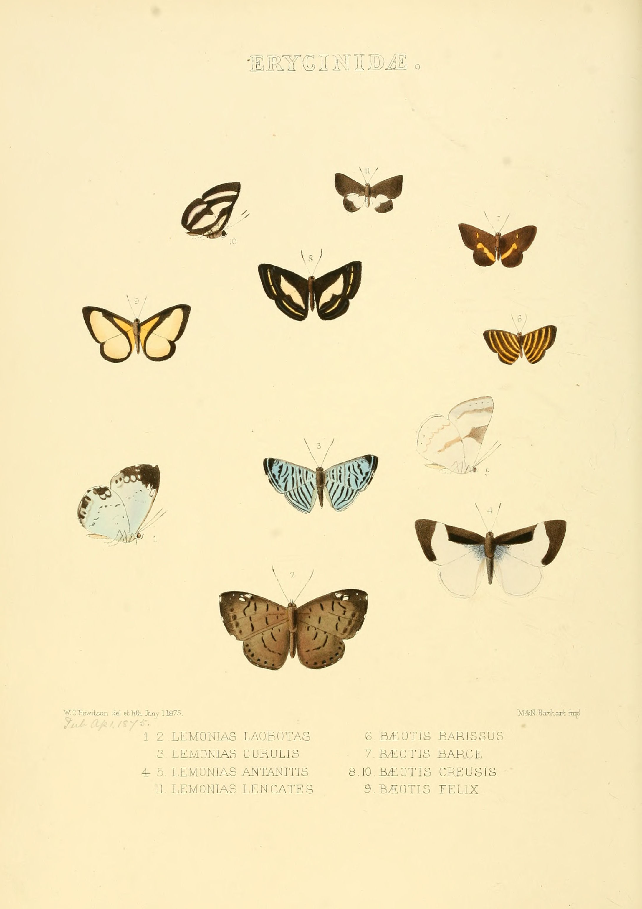 Plate: Lemonias & Bæotis Lemonias laobotas. Figs. 1, 2. Accepted as Menander laobotas (Hewitson, 1875). Lemonias curulis. Fig. 3. Accepted as Adelotypa curulis (Hewitson, 1874). Lemonias antanitis. Figs. 4, 5. Accepted as Theope antanitis (Hewitson, 1874). Lemonias lencates. Fig. 11. Accepted as Roeberella lencates (Hewitson, 1875). Bæotis barissus. Fig. 6. Accepted as Hyphilaria parthenis (Westwood, 1851). Bæotis barce. Fig. 7. Accepted as Baeotis barce Hewitson, 1875. Bæotis creusis. Figs. 8, 10. Accepted as Baeotis creusis Hewitson, 1874. Bæotis felix. Fig. 9. Accepted as Baeotis felix Hewitson, 1874.